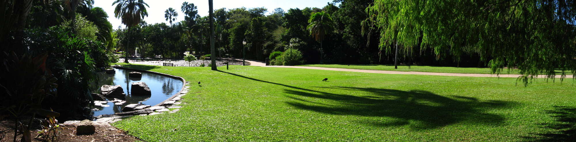 The City Botanic Gardens situated at the south end of CBD